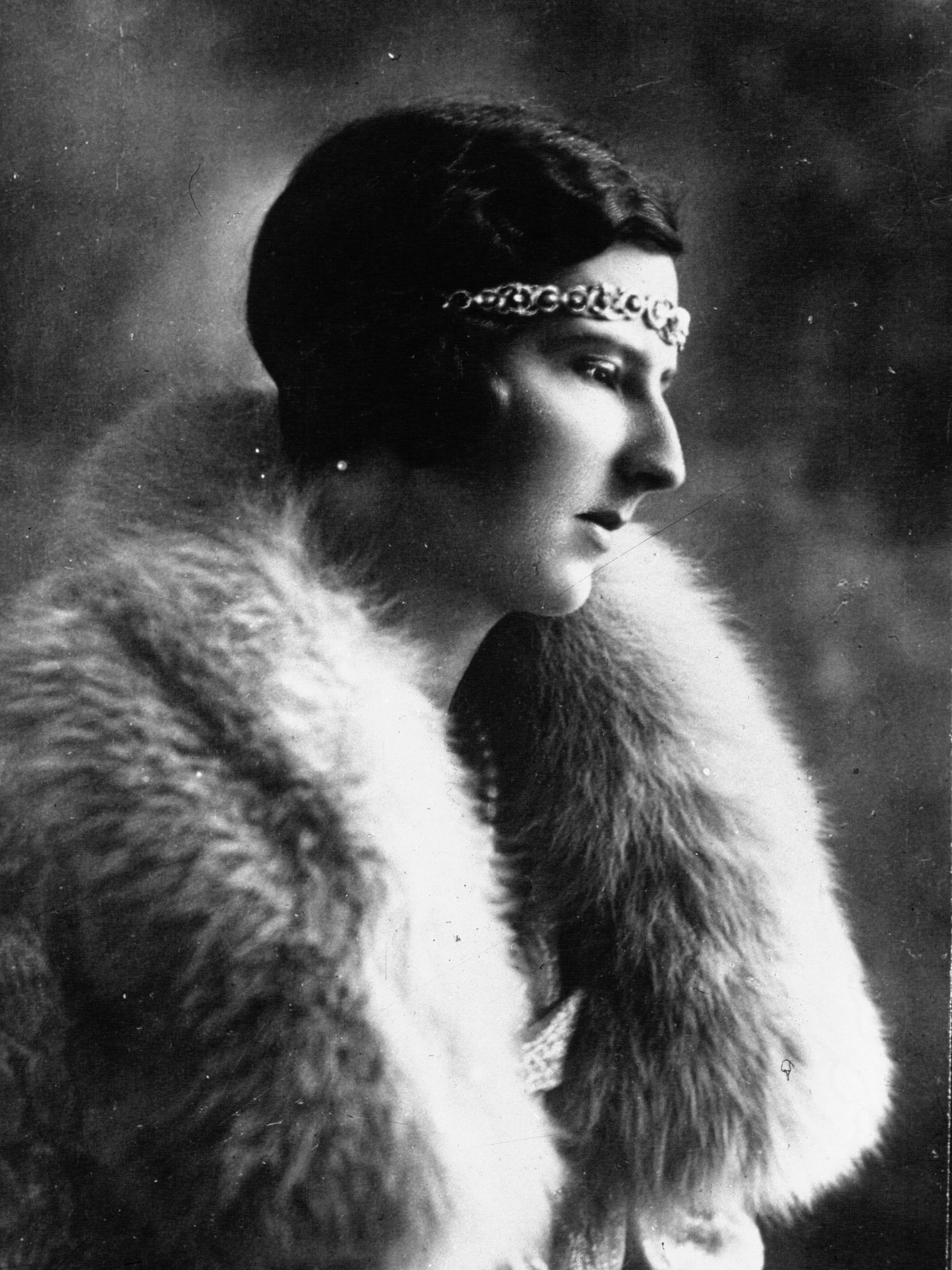 Giovanna of Italy, Tsaritsa of Bulgaria (1907-2000).